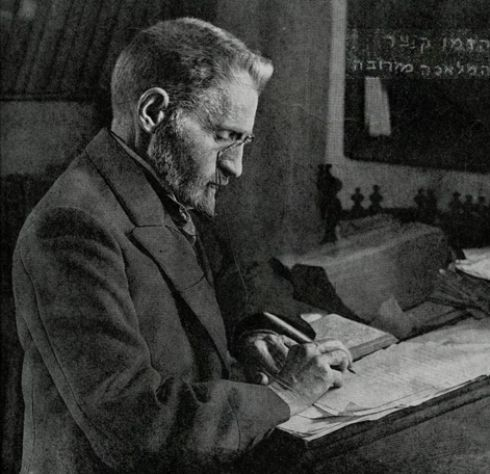 Eliezer Ben-Yehuda working on his dictionary.